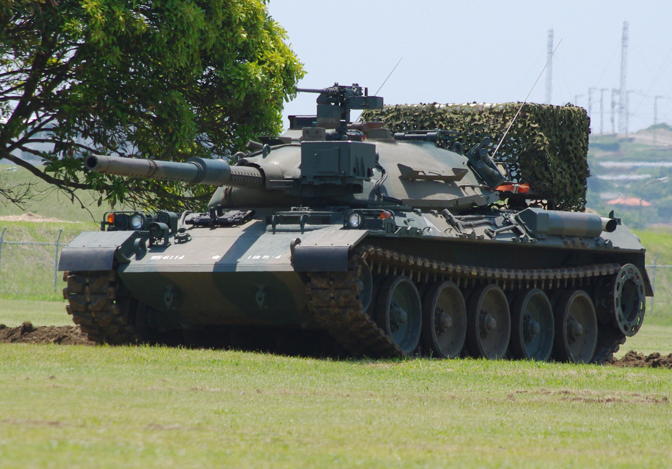 JGSDF Type74 Tank(G),1st Armored Training Unit/Eastern Army Combined Brigade.Taken by Los688,in Camp Takeyama,Japan,at 27-May-2012.PD-self ja:74式戦車G型 パッシブIR暗視装置付 2012年05月27日、東部方面混成団第1機甲教育隊 武山駐屯地で撮影。